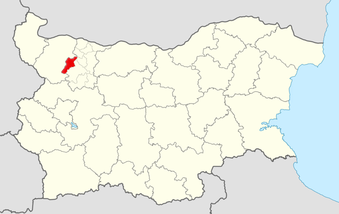 Location map of Krivodol Municipality within Bulgaria and Vratsa Province.